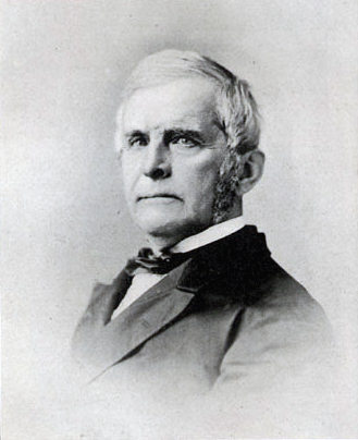 Jacob (Aaron) Westervelt (1800-1879) was a shipbuilder in the mid-1800s, and a Mayor of New York City 1853 - 1855.